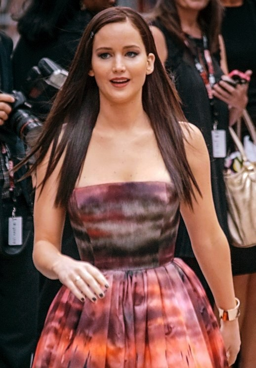 Jennifer Lawrence at the Toronto International Film Festival 2012.